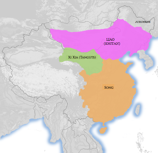 Maps of Song, Liao, and Xi Xia in 1111 Add en labels